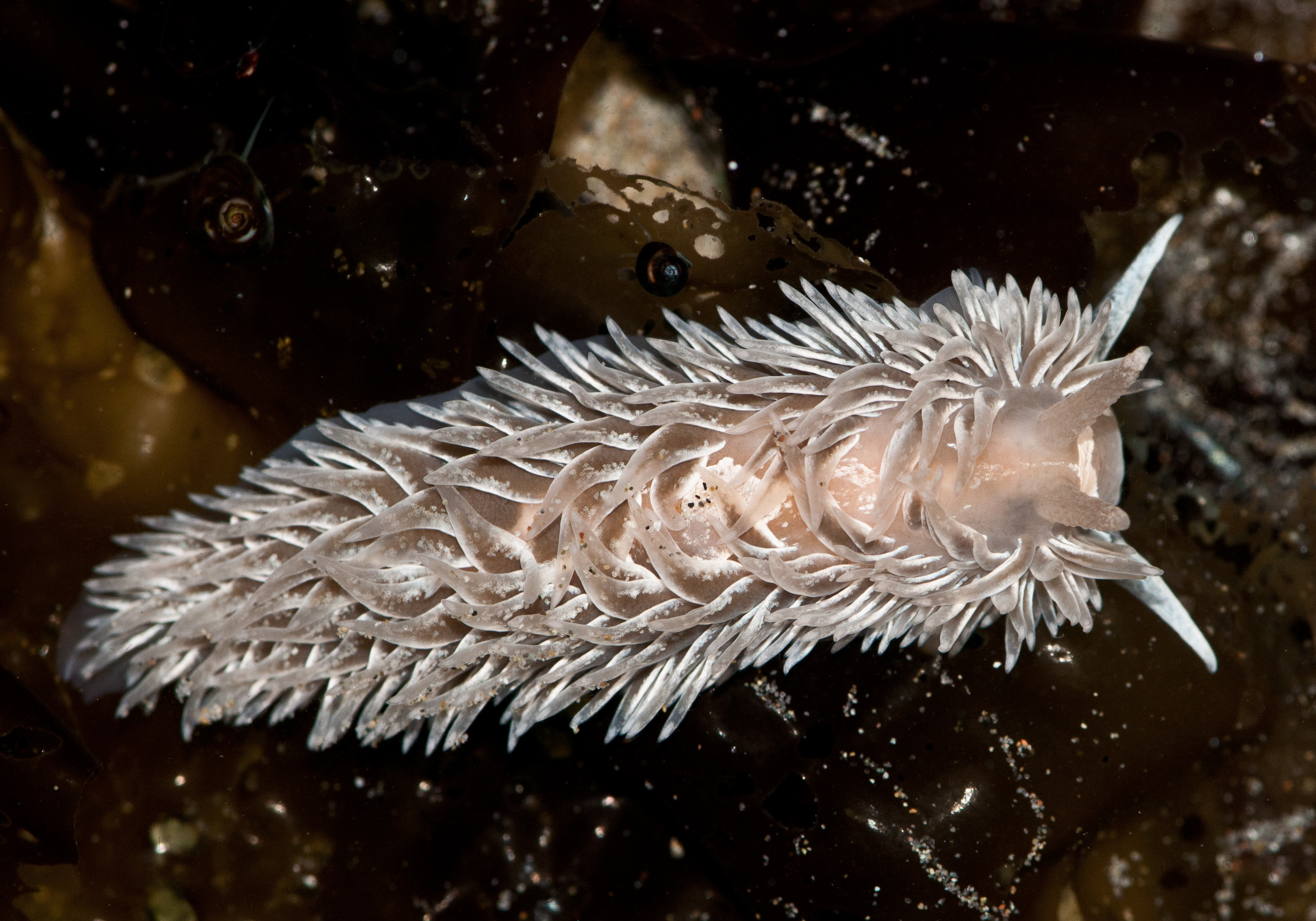 This nudibranch eats sea anemones, and the aggregating anemone. It feeds at least once a day, consuming 100% of its 2 3/4" body which does not weigh much. In order for the shag-rug nudibranch to feed on anemones, it must first become immune to the stinging properties of the nematocysts. Apparently the nudibranch first touches the anemone, then retreats, which activates the production of a coating resistant to the stinging effects. (Taken from Beachcombers Guide by Sept). Must see on black. Ken and Gary will appreciate this one.